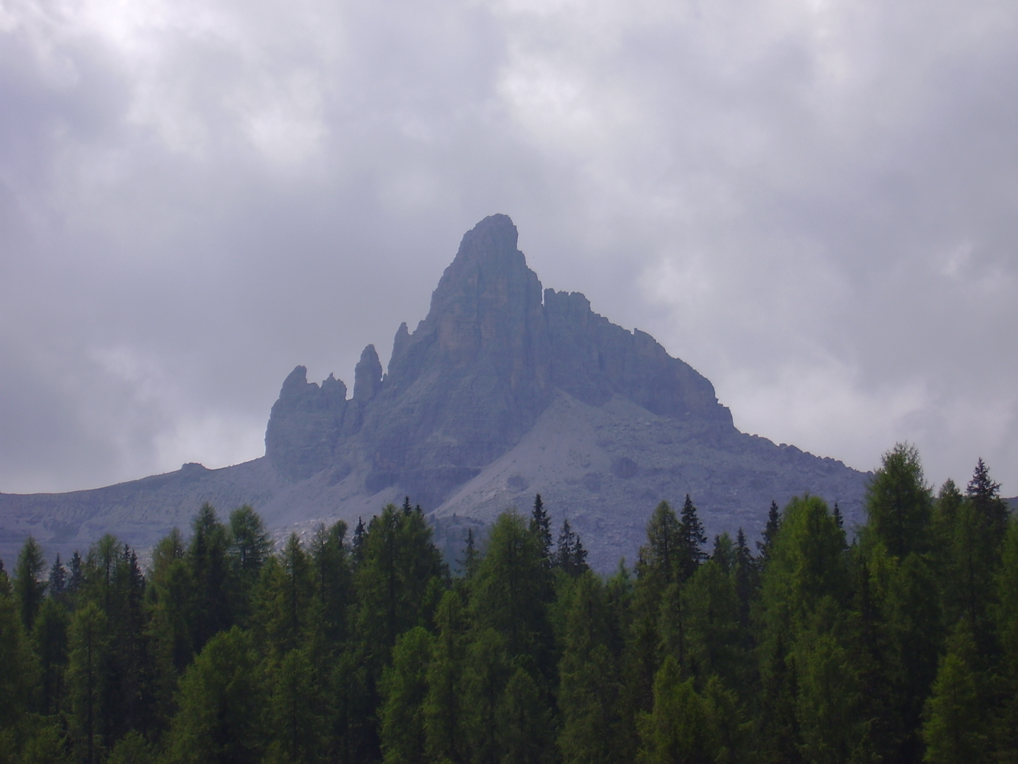 The Becco di Mezzodì mount, in the Dolomites, Cortina d'Ampezzo, Italy.